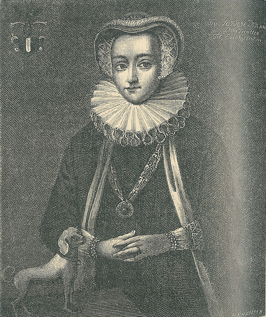 Sophie Brahe, ca. 1556 - 1643, sister of Tycho Brahe